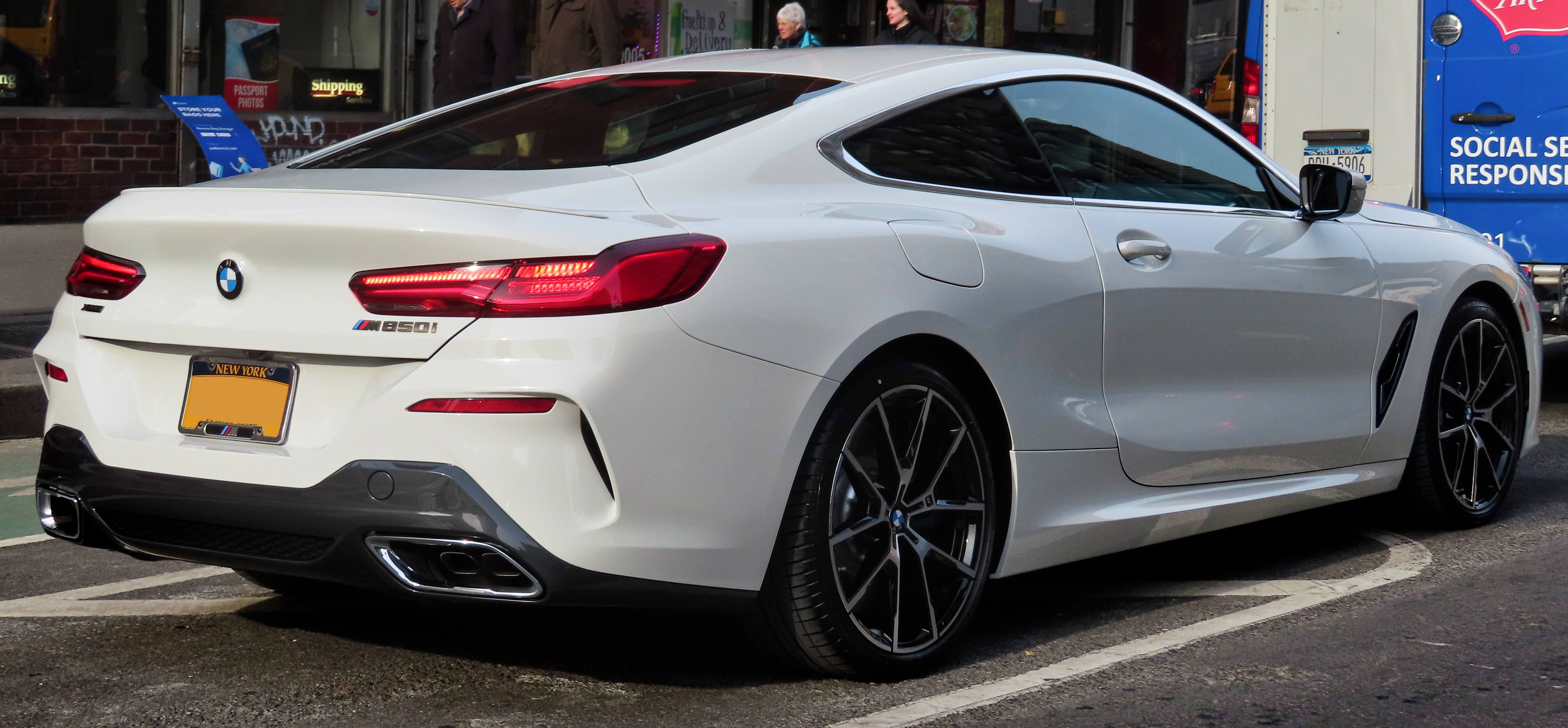 A 2019 BMW M850i photographed in Greenwich Village, Manhattan, New York, USA